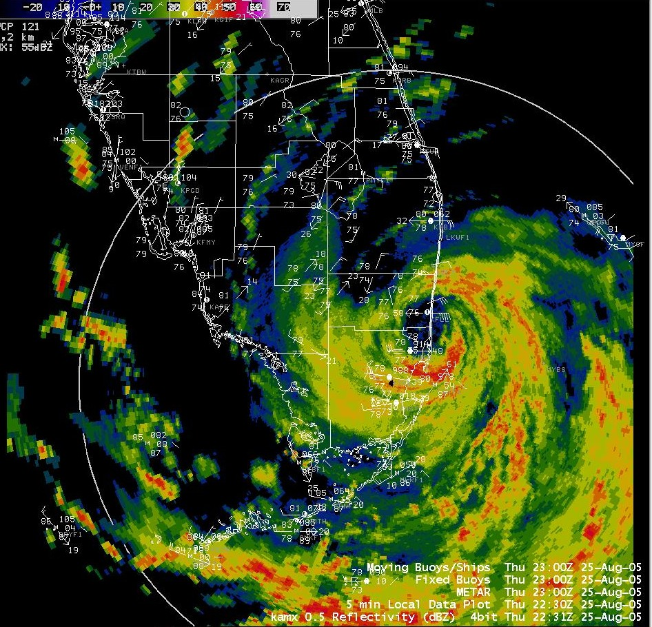 Radar reflectivity image while Katrina was crossing the coast, from August 25 at 6:31 PM EDT (2231 UTC).